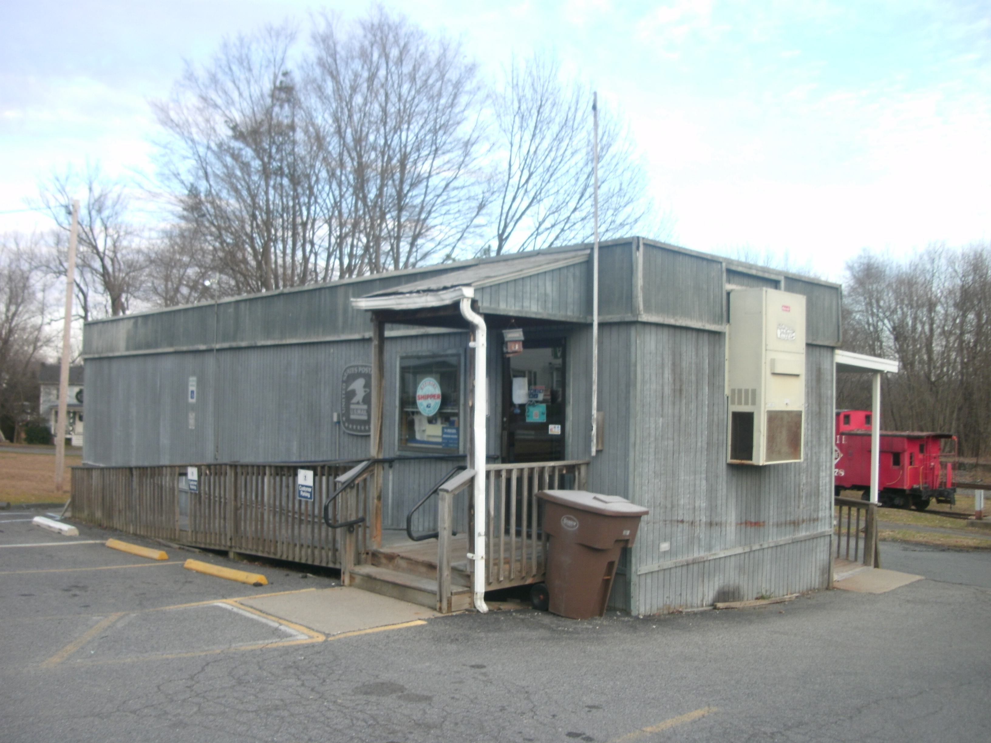 The Post Office in Port Murray, New Jersey that consists of a one story trailer. An Erie Railroad caboose is visible to the right behind the office.